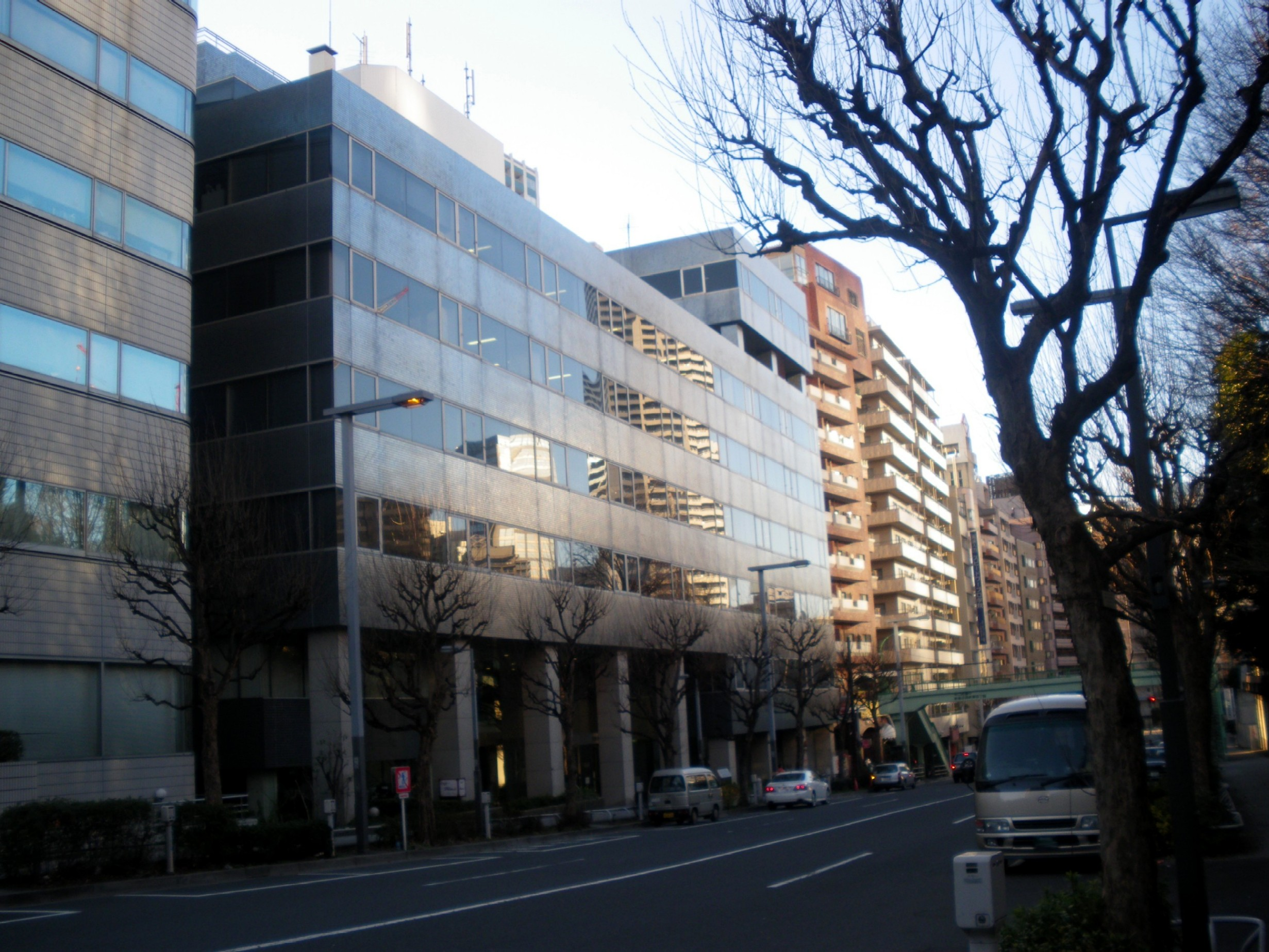 photo of Sumitomo Fudosan Nishishinjuku building No.3, a office building in Shinjuku,Tokyo,Japan